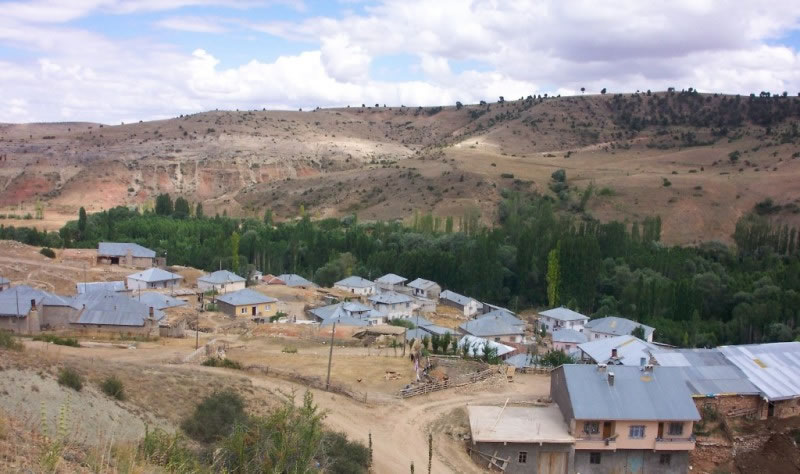 Village of Emlakkale in Şarkışla District of Sivas Province